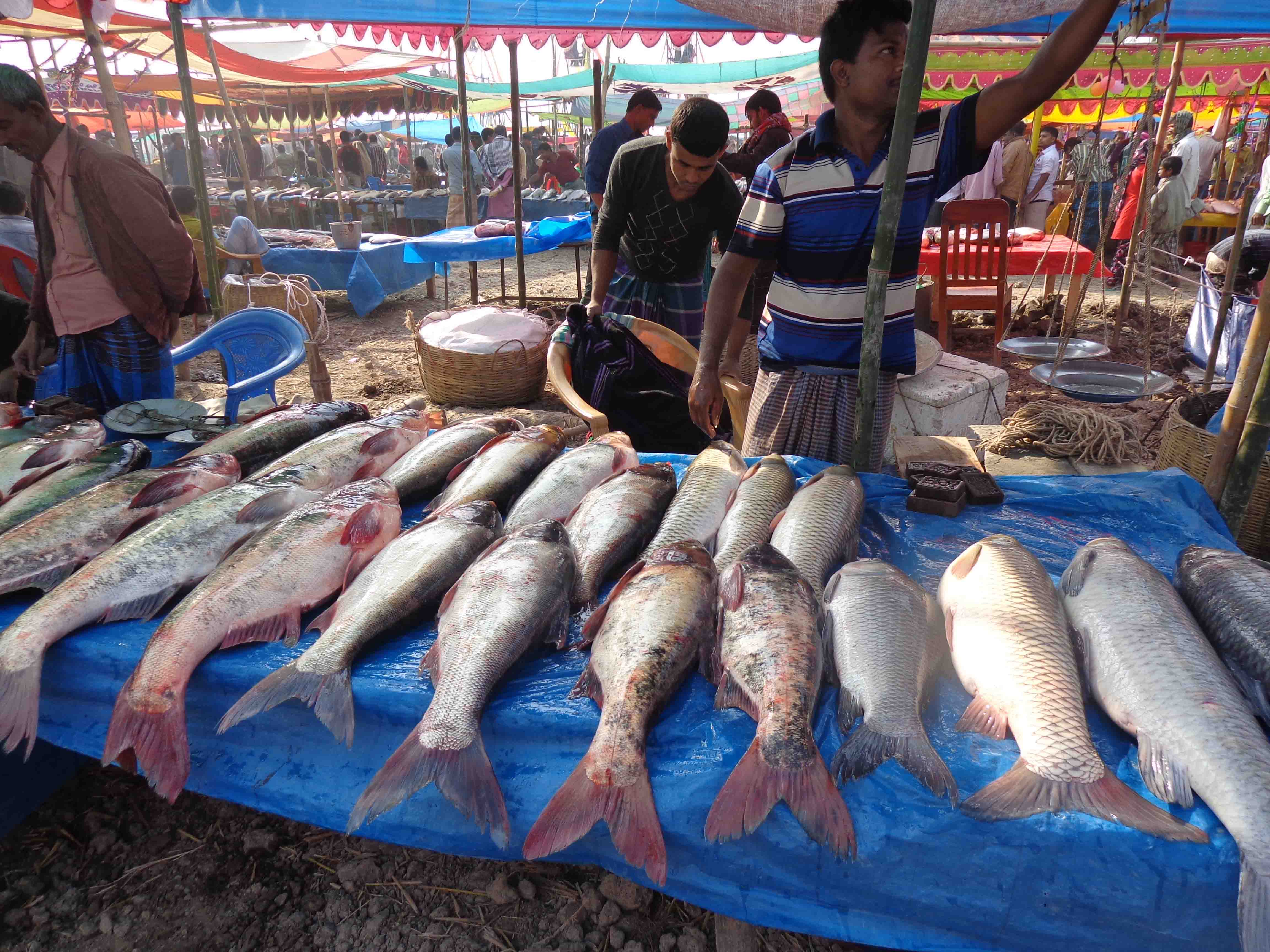 A village Fair